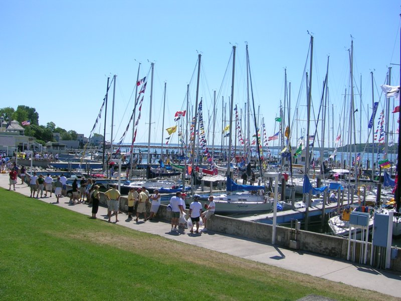 Sailboats at Mackinac Island, Michigan, after completing the Port Huron-Mackinac race in 2006.